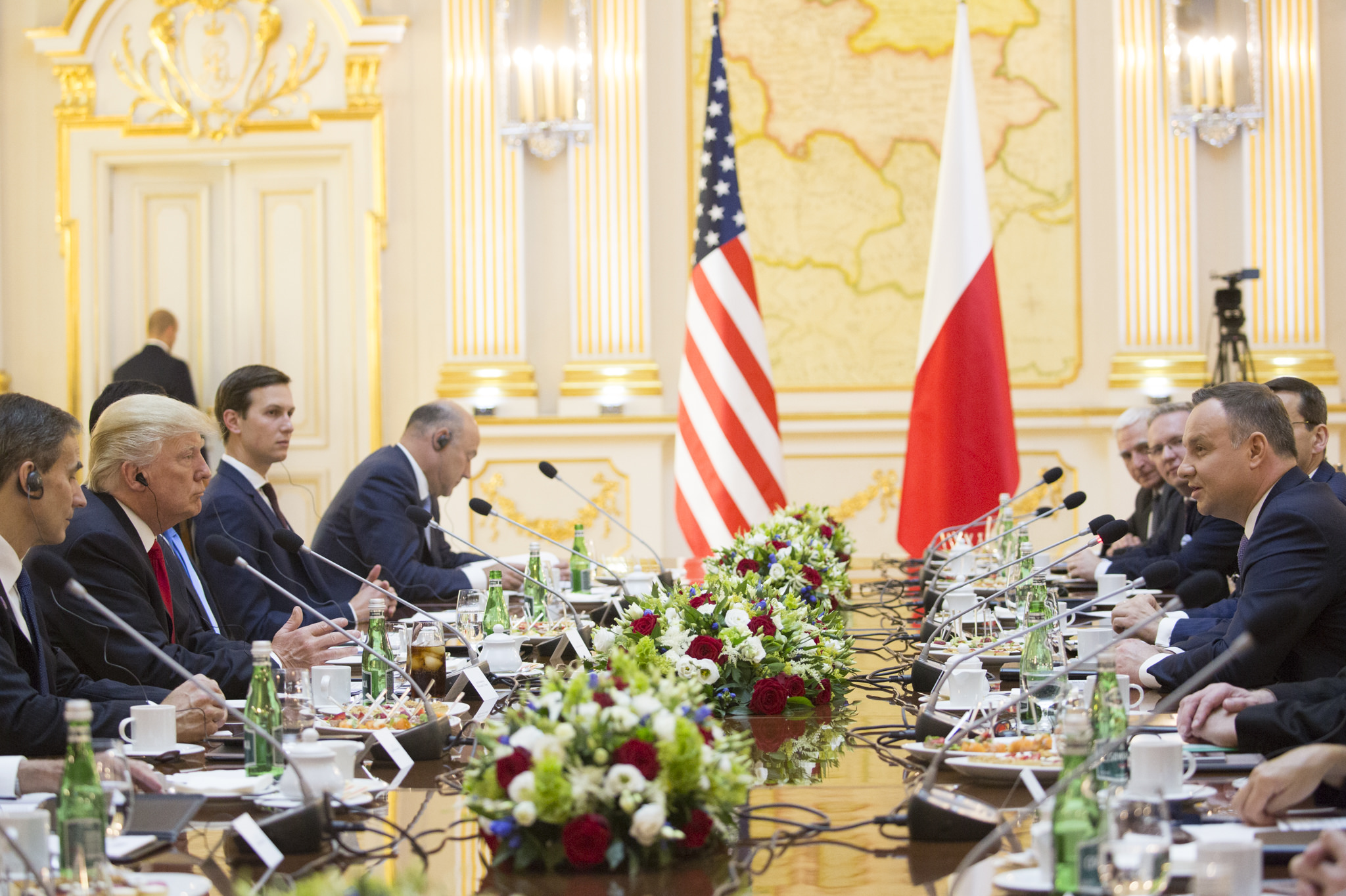 President Donald J. Trump and President Andrzej Duda | July 6, 2017 (Official White House Photo by Shealah Craighead)